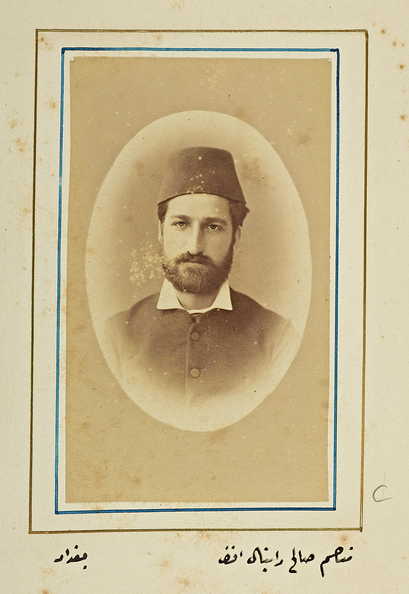 Menahem Saleh Daniel in his youth